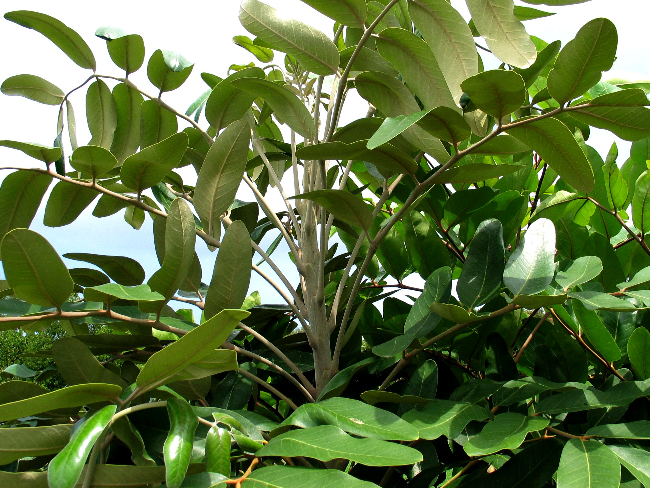 [syn. Tetraplasandra hawaiensis] ʻOhe or Hawaii ohe Araliaceae Endemic to the Hawaiian Islands Hawaiʻi Island (Cultivated) The fruits were used medicinally for babies. The mother would eat the fruits feed her baby through breast milk to cure pāʻaoʻao (childood disease, with physical weakneses) and ʻea (thrush) with no side effects. NPH00010